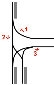 Diagram of the tram rail triangle turning terminus at Vlaardingen, a bit different than the standard.